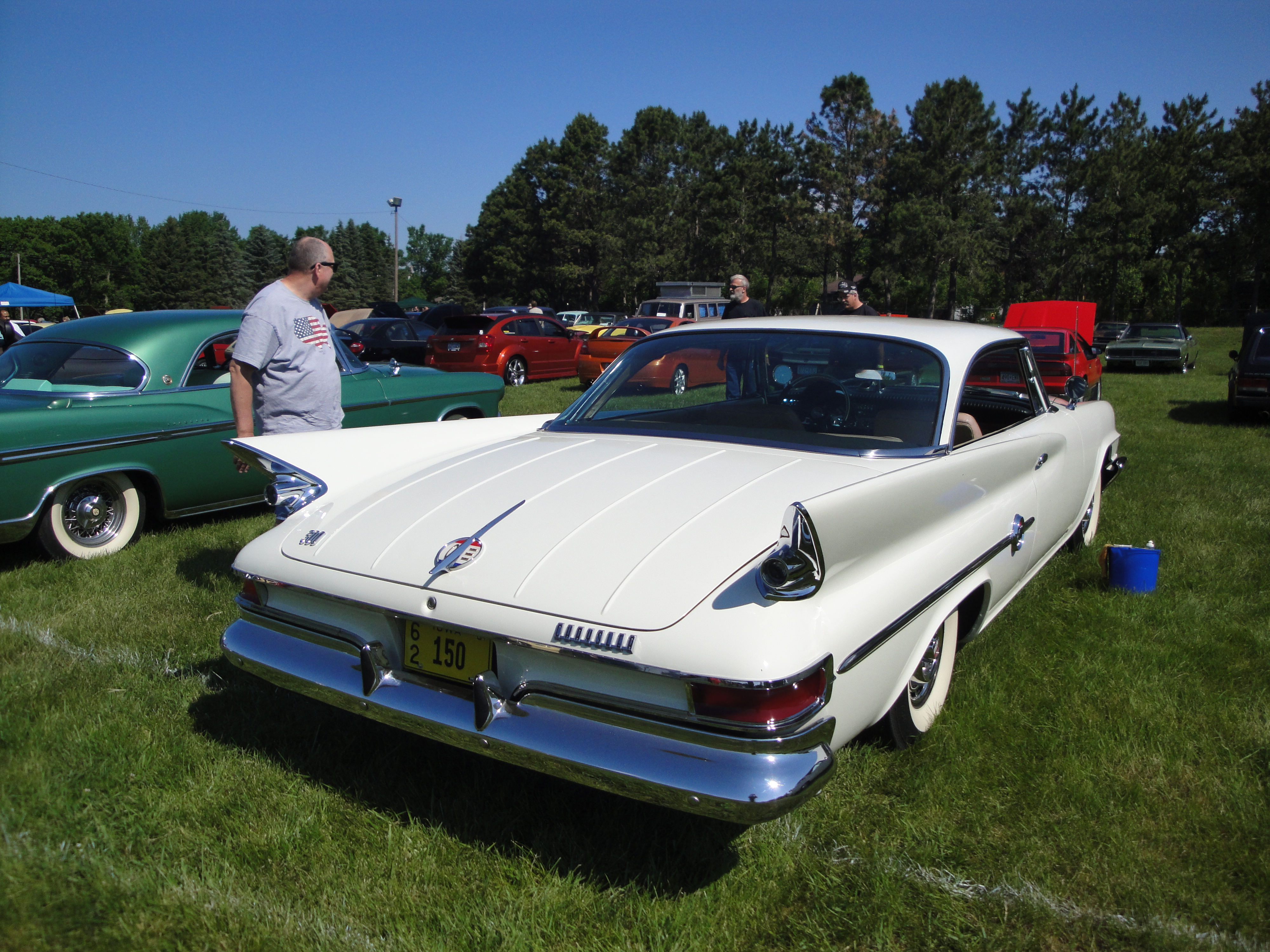 28th Annual Midwest Mopars in the Park June 2, 2012